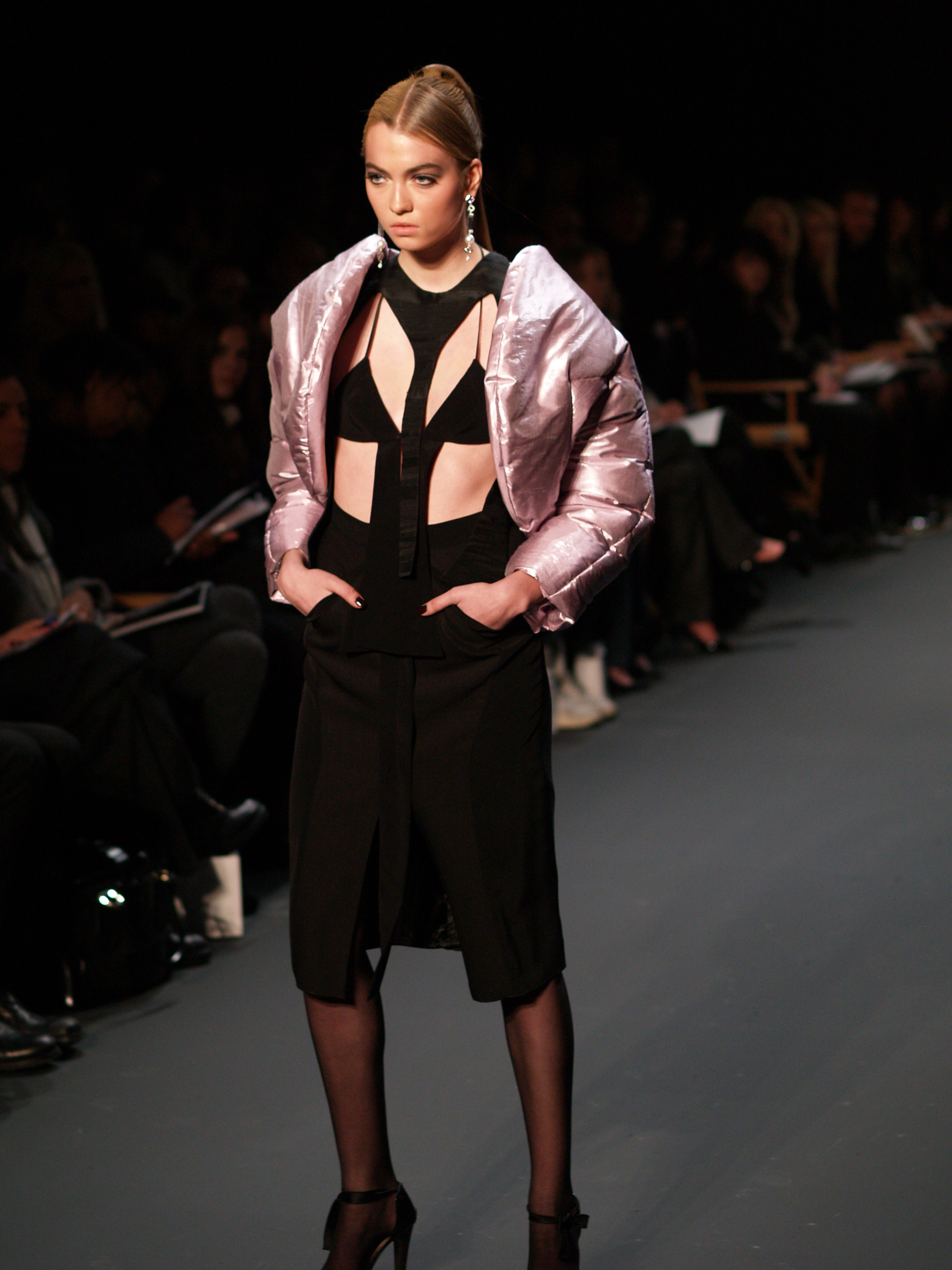 Toni Maticevski's catwalk show during New York Fall Fashion Week 2007 at the tents in Bryant Park New York